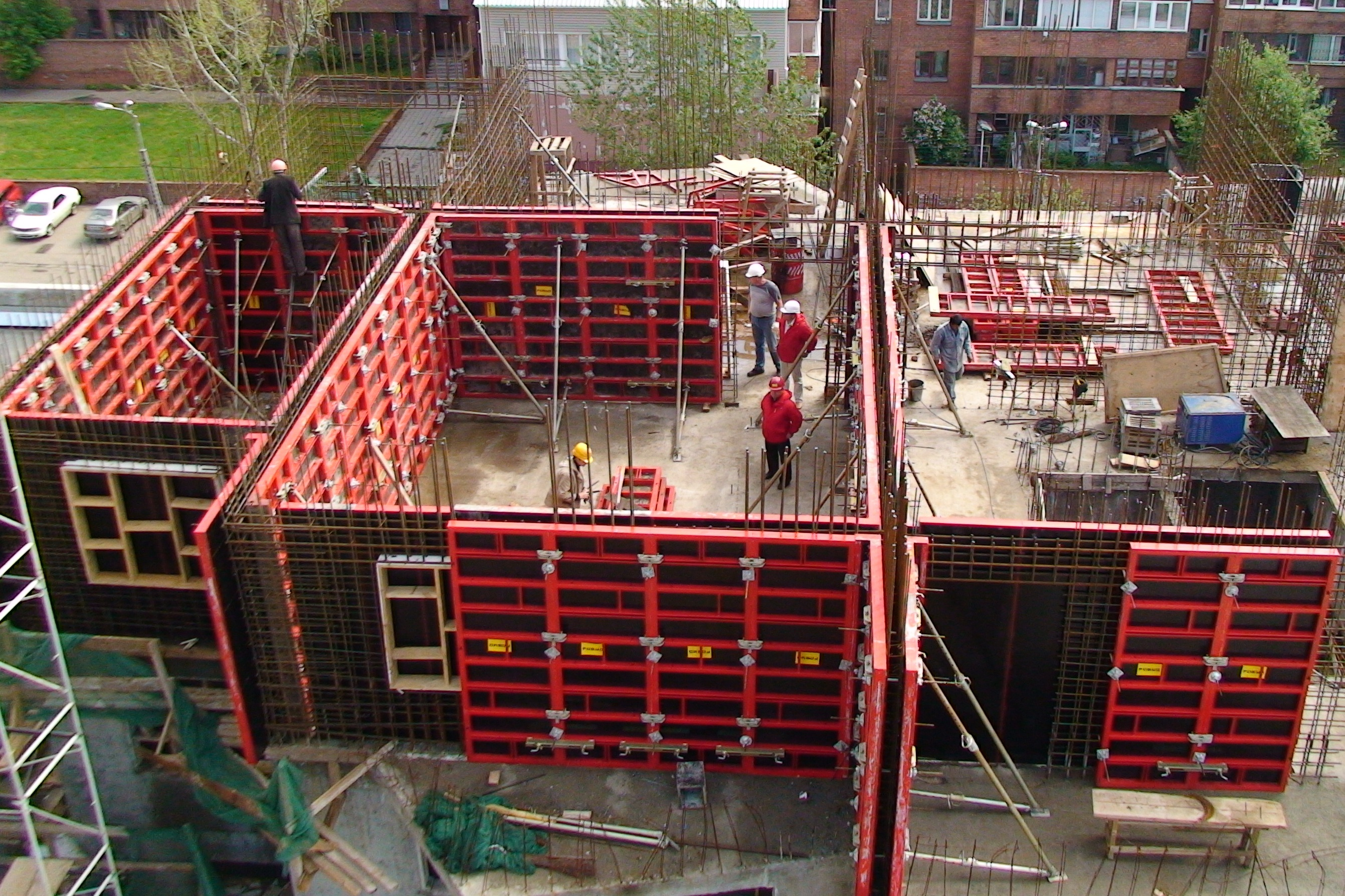 formwork